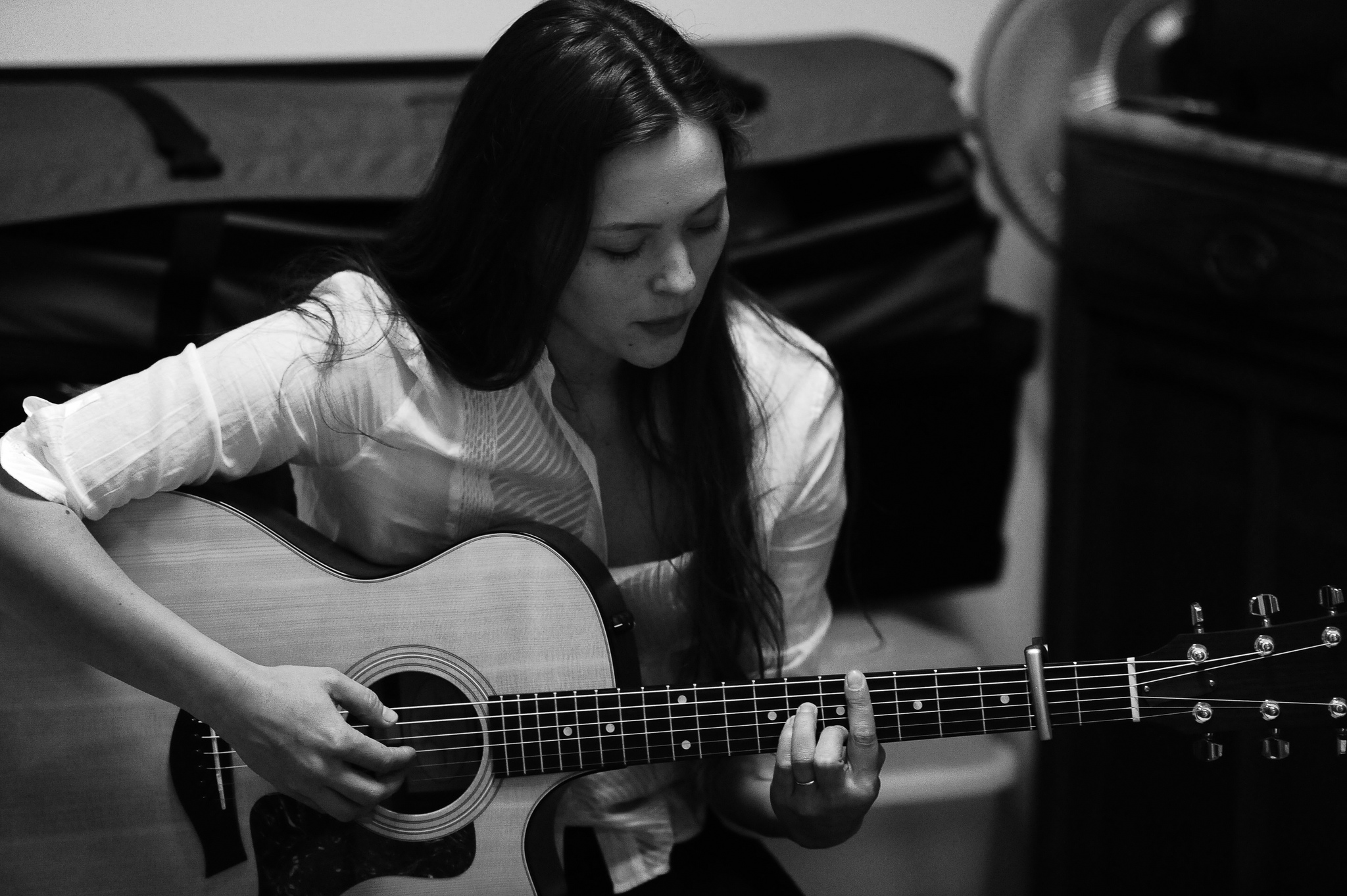 Kesang Marstrand at Final Frame Studio - Tunis